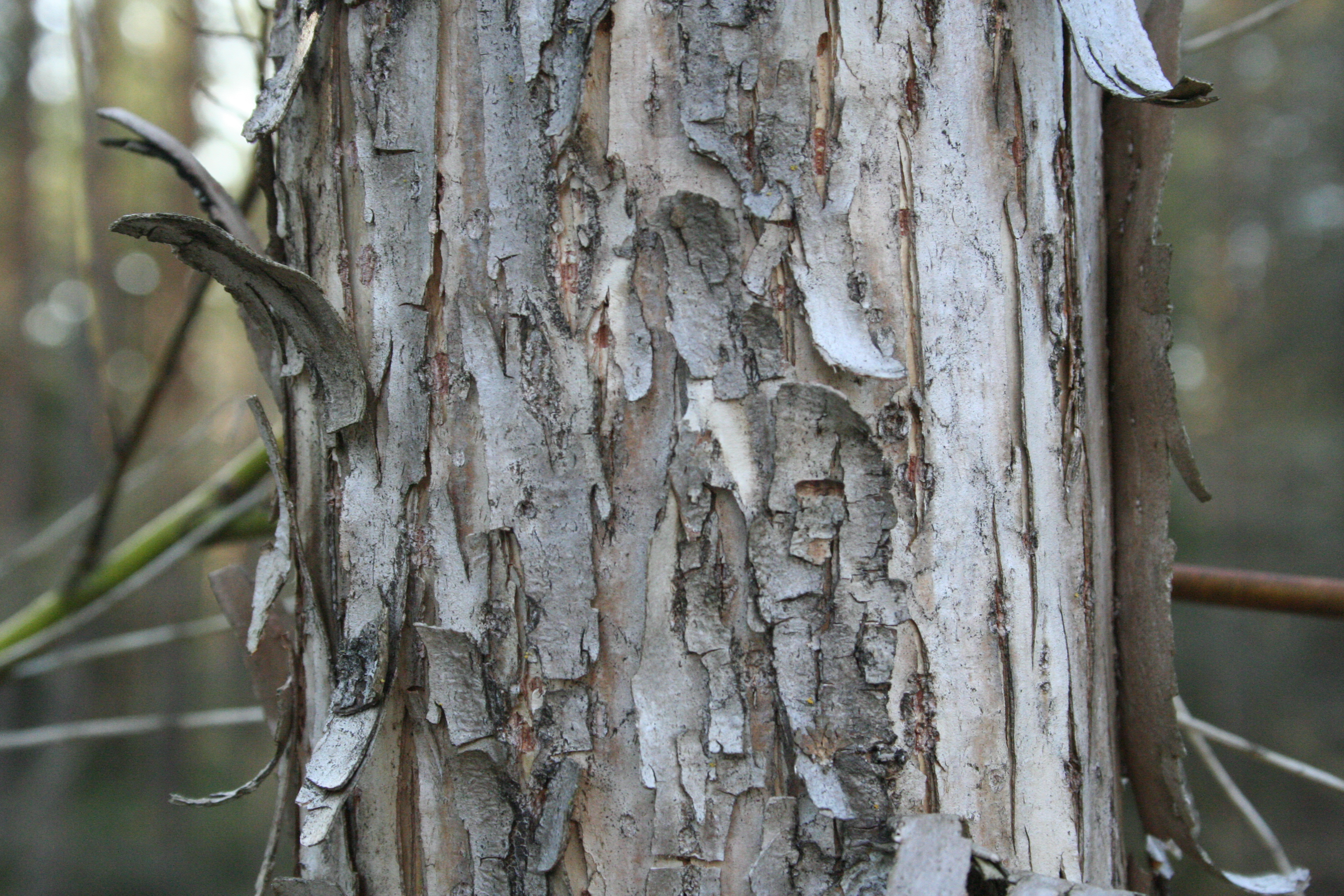 Bark of Chosenia arbutifolia in Oulu University Botanical Gardens, Finland.